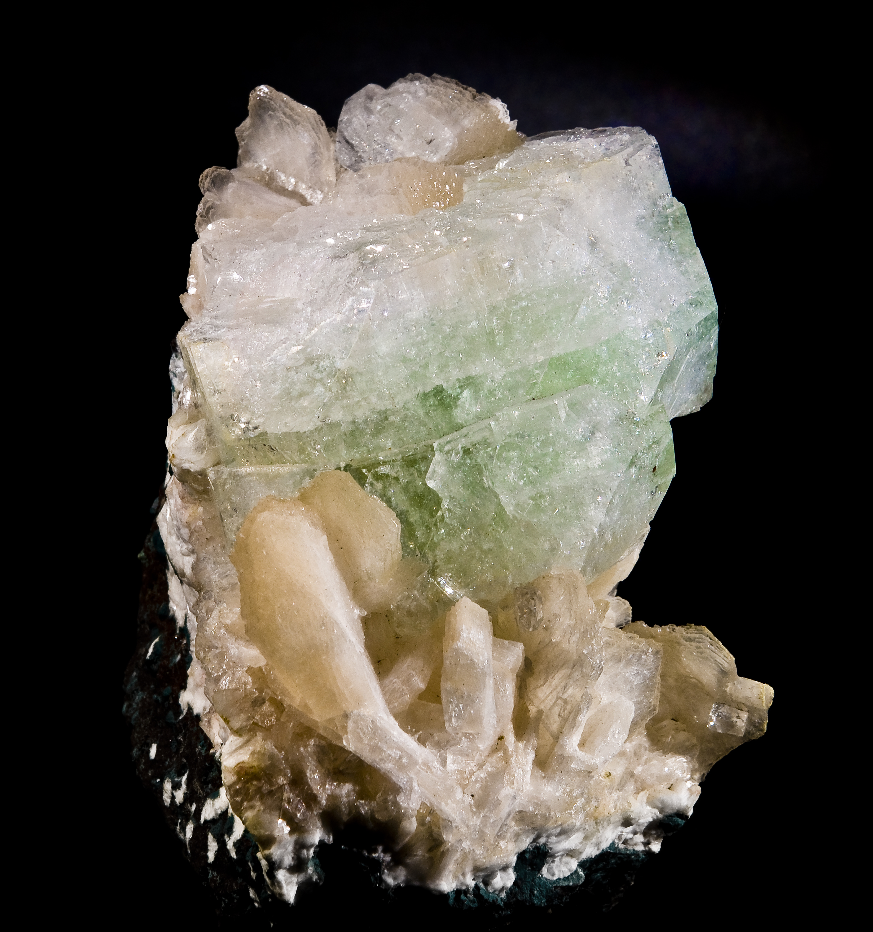 apophyllite-(KF) with stilbite - Nasik quarry, Nasik District, Maharashtra, India - (10.3 × 7.2cm).